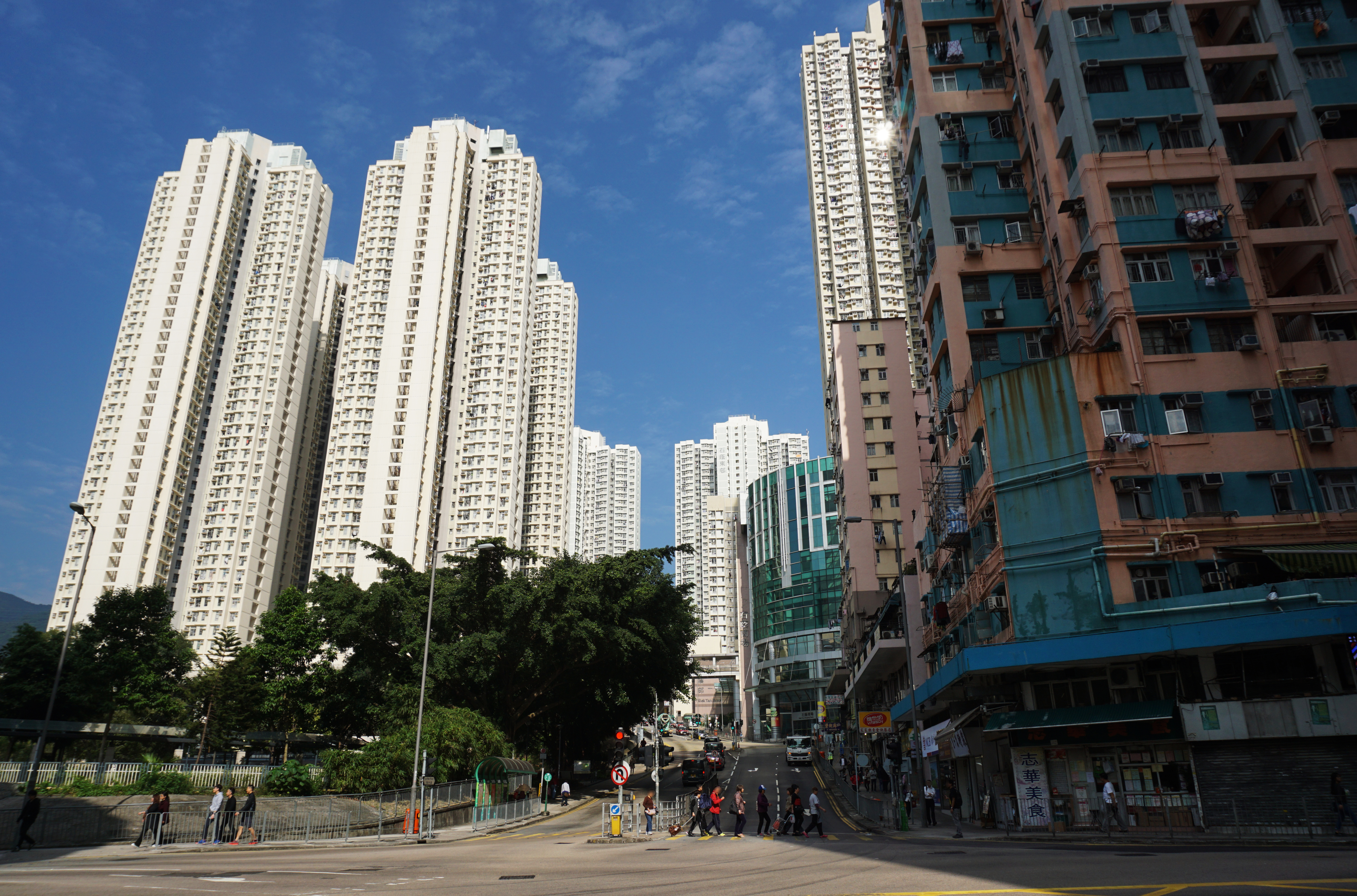 Lei Muk Road in Shek Yam, Hong Kong.